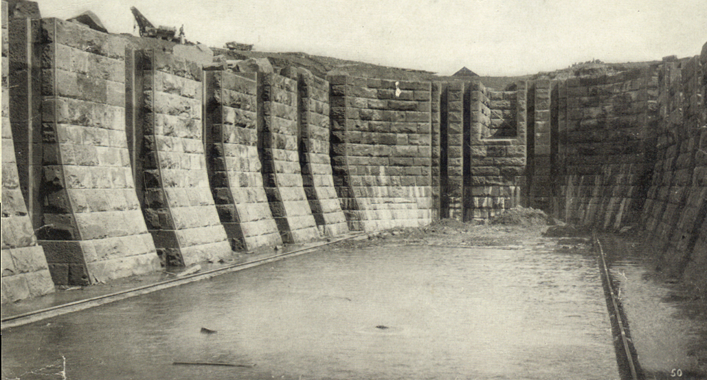 The southern dock of the Chignecto Ship Railway. Fort Lawrence, on the Fundy Bay, near Amherst, Nova Scotia, Canada.